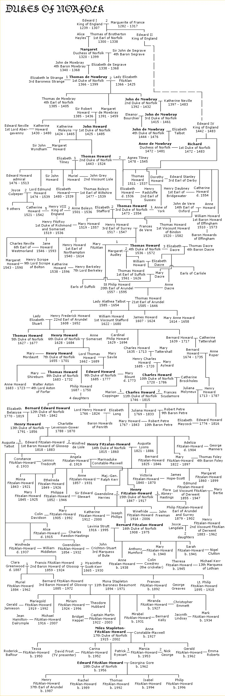 A family tree of the Norfolk dukes